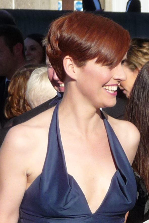 Pixie McKenna and Christian Jessen from Channel 4's Embarrassing Illnesses and Embarrassing Bodies. On the red carpet at the BAFTA Awards, held at the Royal Festival Hall, on the Southbank in London.